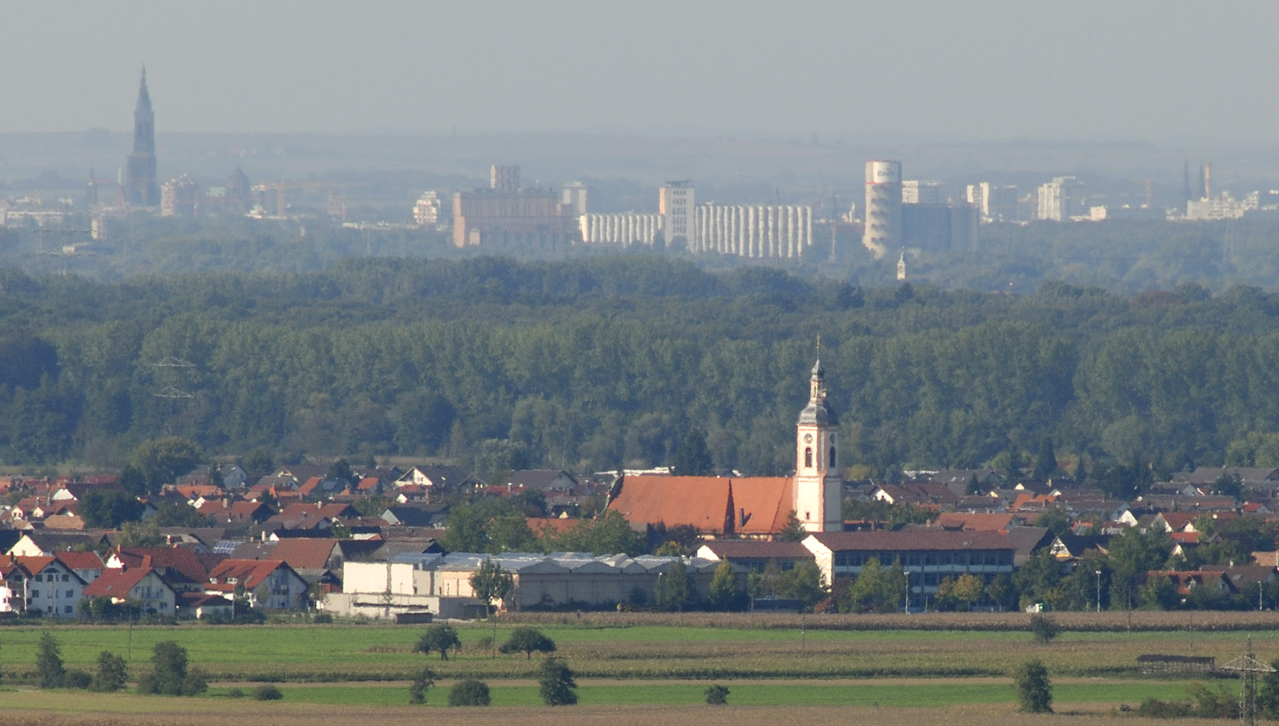 Schutterwald, Germany. Foreground: Catholic Church St. Jakobus in Schutterwald, seen at a distance of about 5 km from Schutterwald. Background: Strasbourg Cathedral